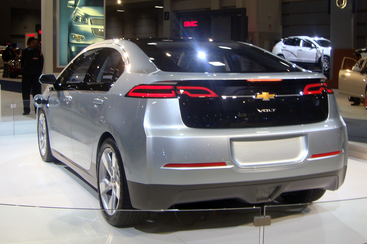 2011 Chevrolet Volt exhibited at the 2010 Washington Auto Show. The Chevy Volt is a plug-in hybrid (PHEV).